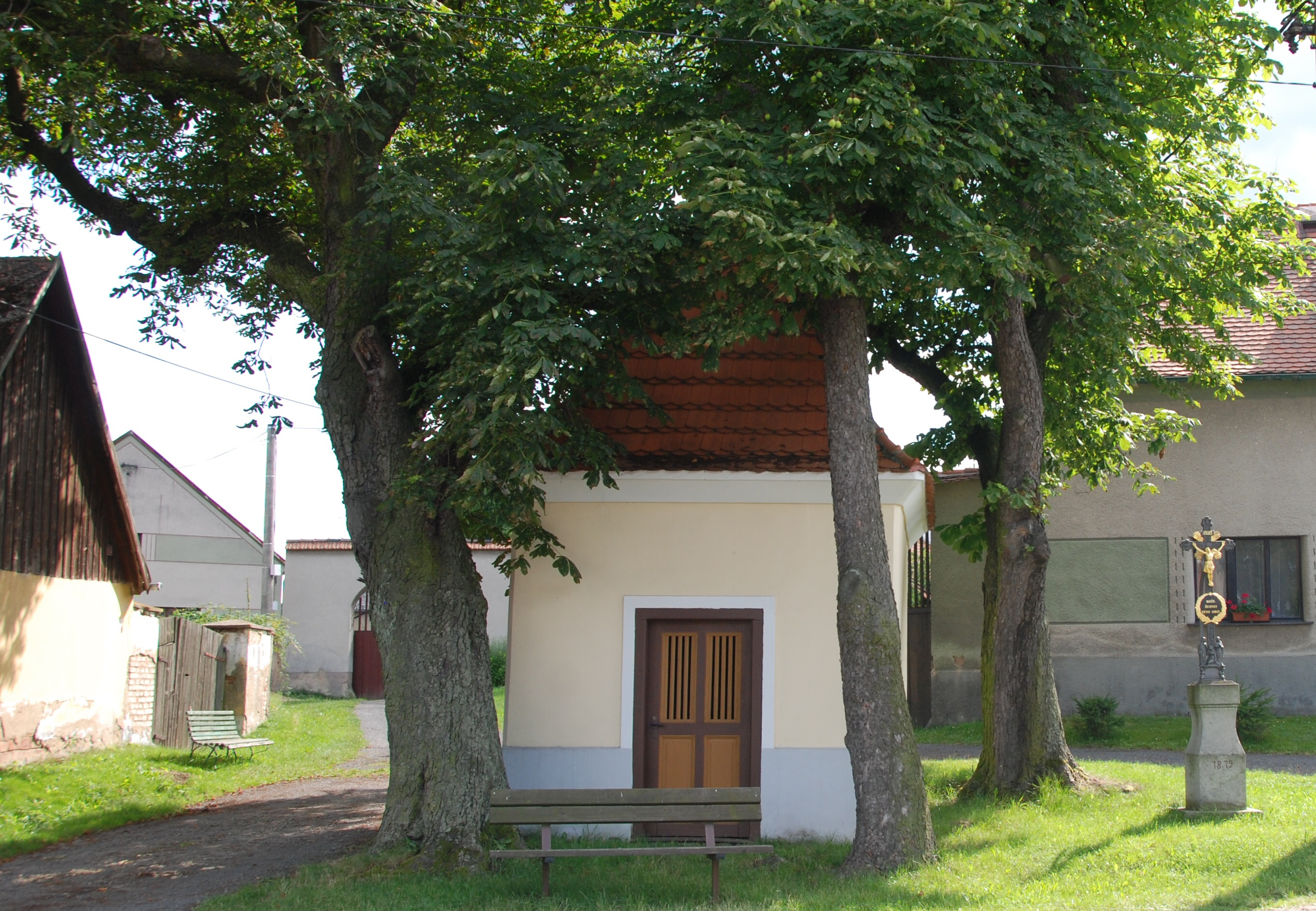 This photograph was taken within the scope of the second year of the 'Czech Municipalities Photographs' grant. Kaplička